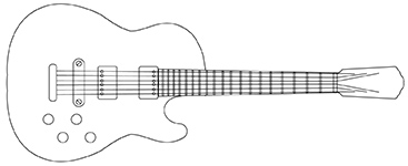 Single cut guitar body